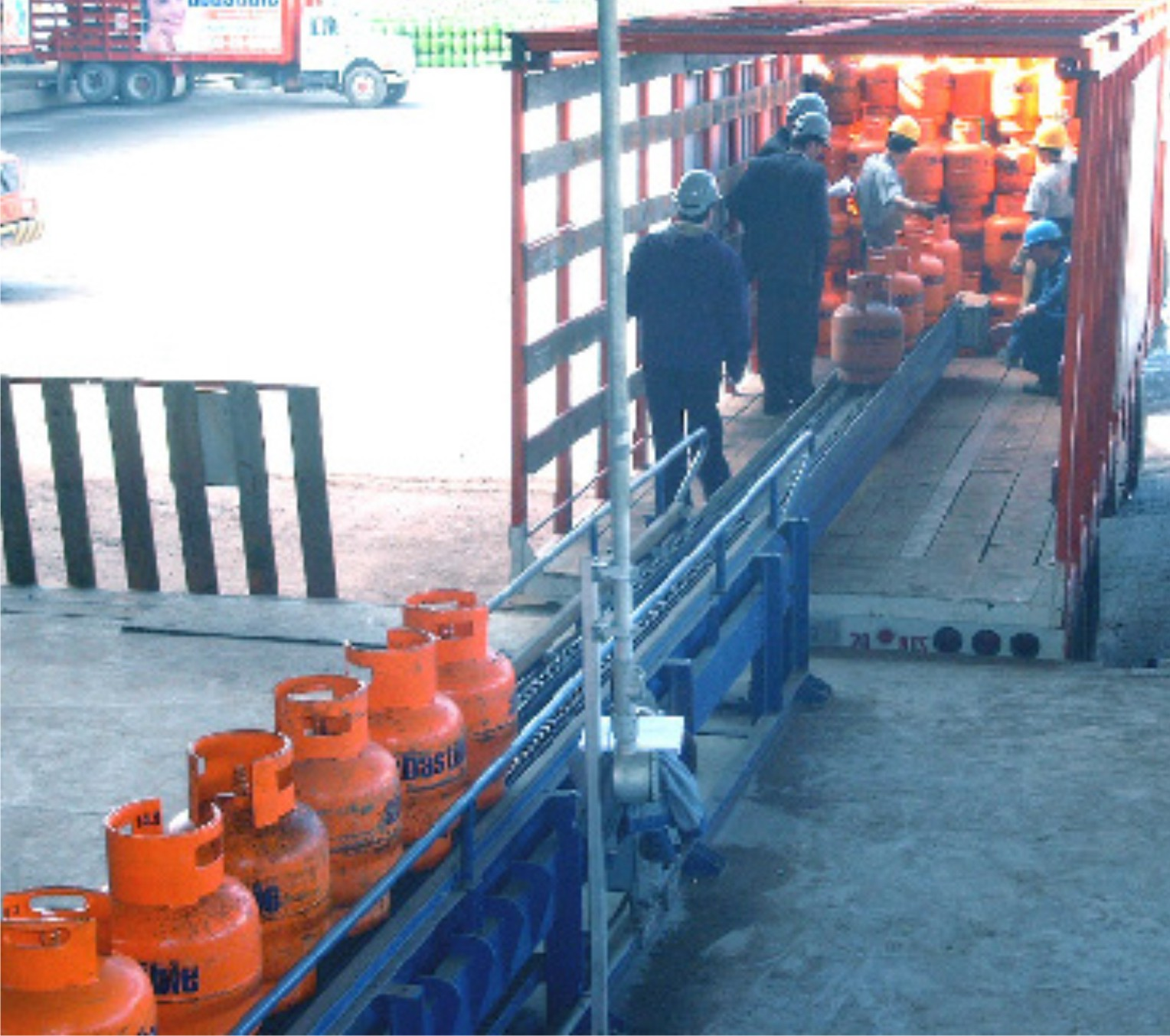 Выгрузка баллонов из автомобиля на раздвижной цепной конвейер